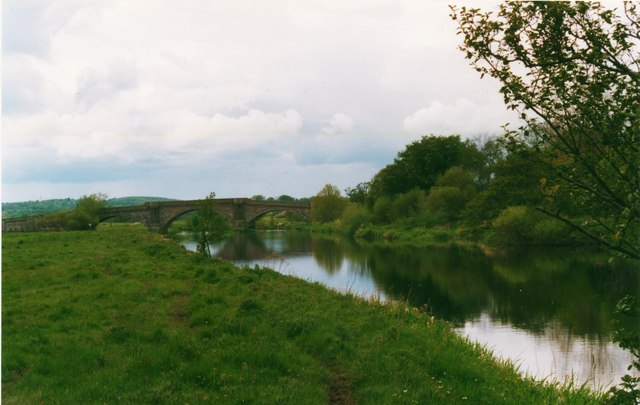 Bridge of Dun from the riverbank The bridge links amongst others the House of Dun and Old Montrose.